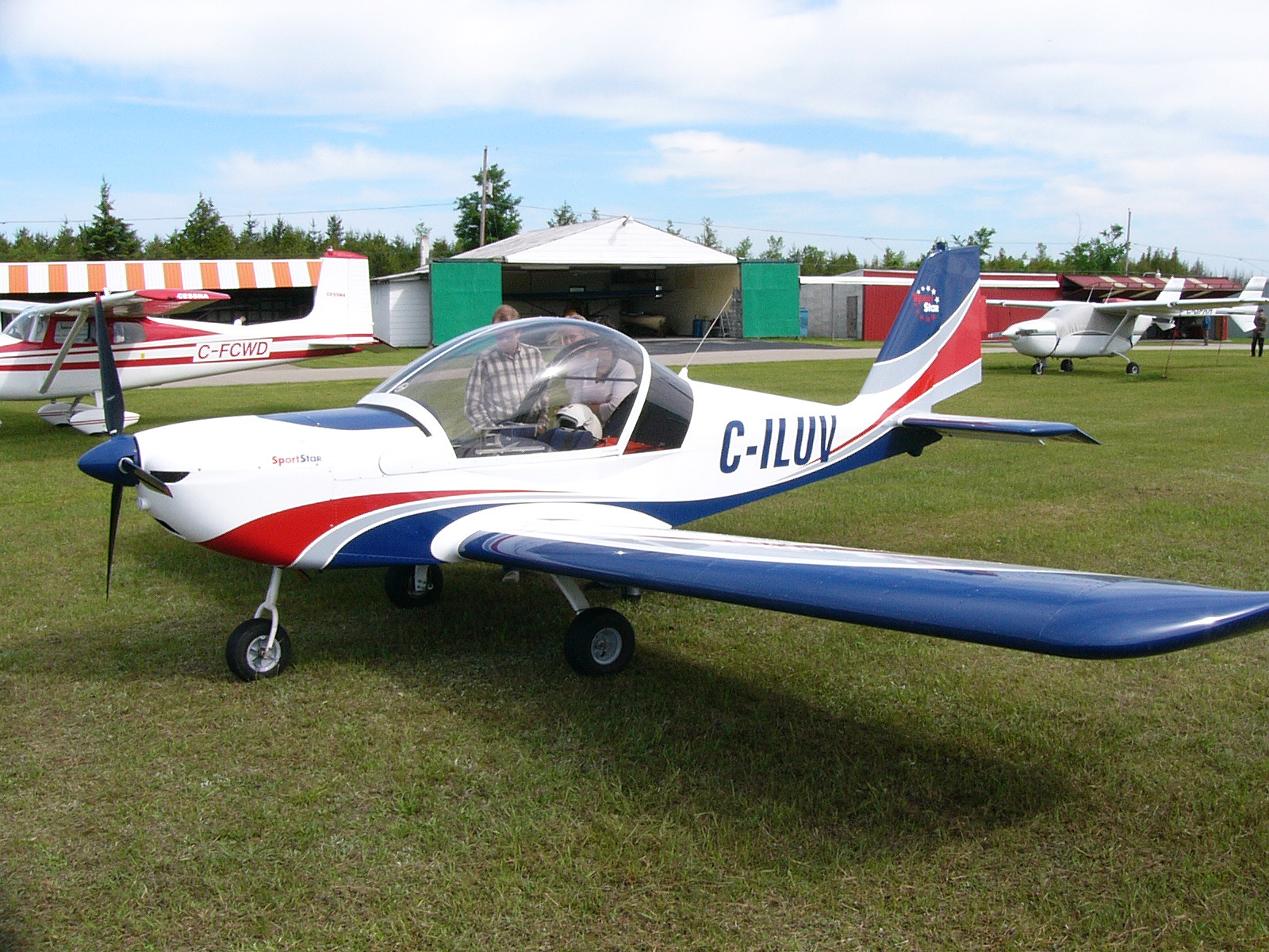 Evektor SportStar